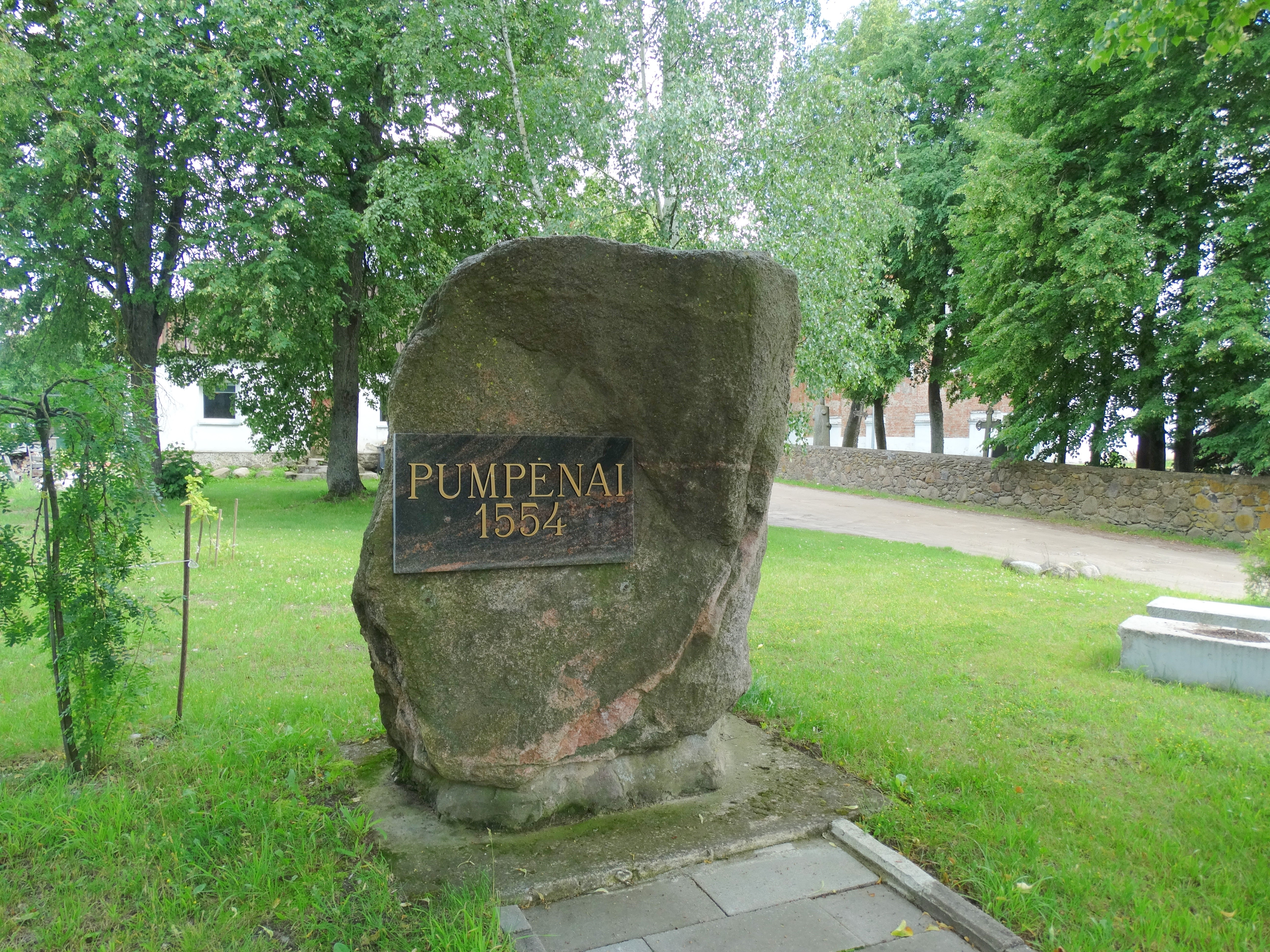 Pumpėnai, Pasvalys District, Lithuania